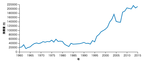 Total annual catch of Selar crumenophthalmus, based on